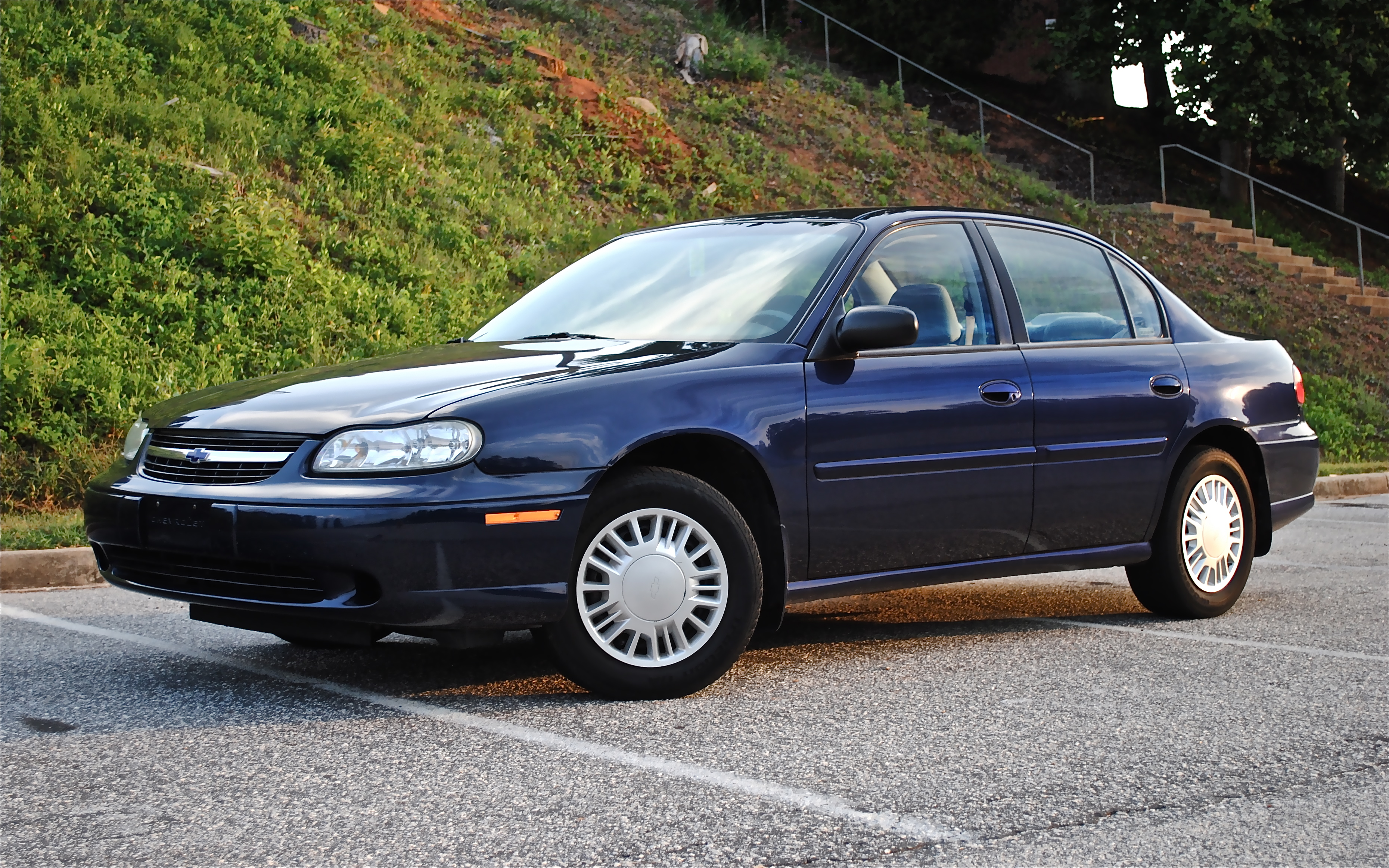 2000 Chevrolet Malibu